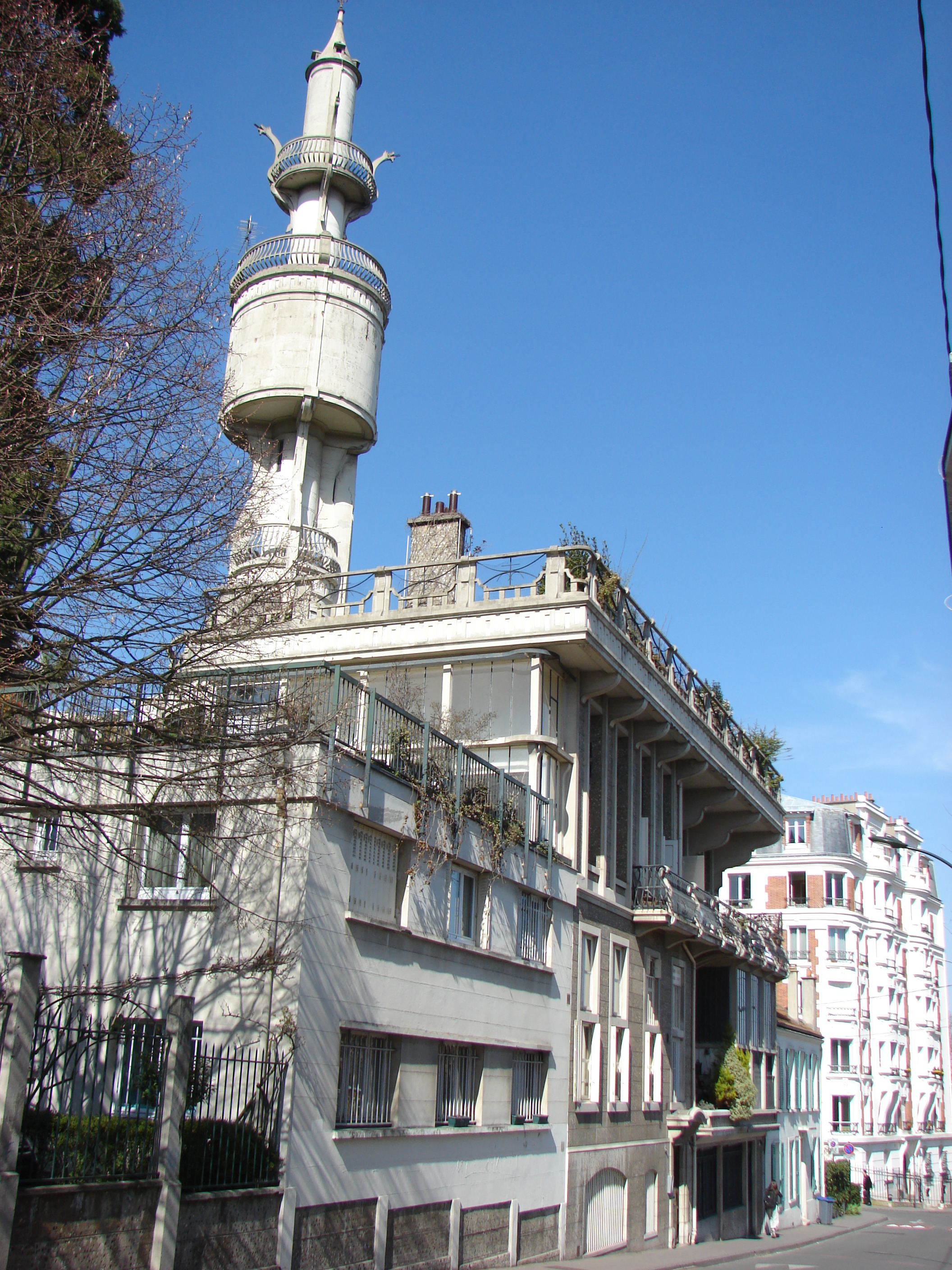 Francois Hennebique's domestic house in Bourg-la-Reine